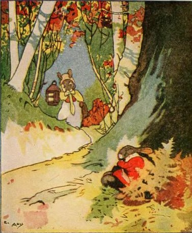 Illustration in the novel Peter Rabbit and his ma by Louise A. Field. Illustrations by Virginia Albert